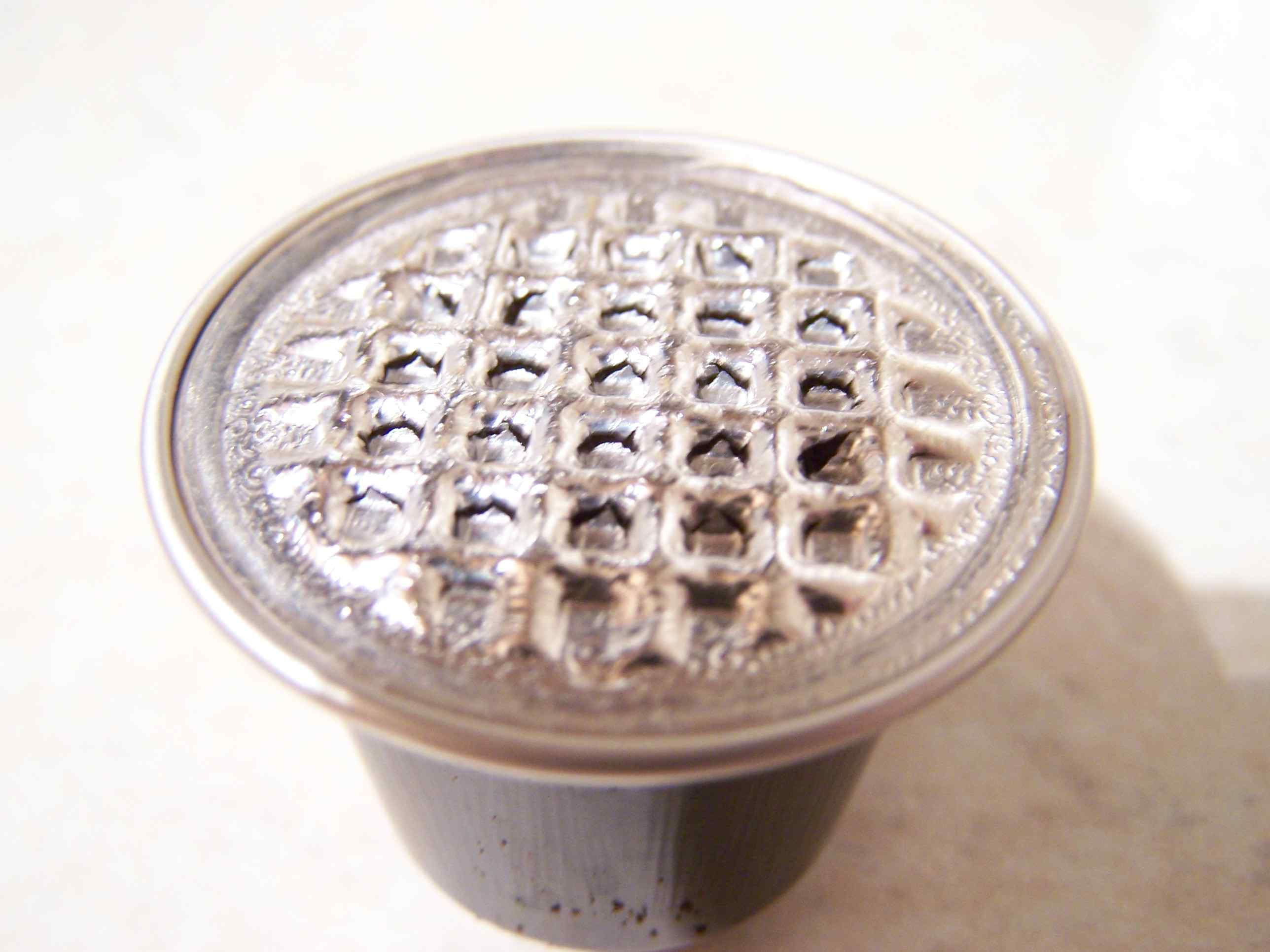 Used nespresso top